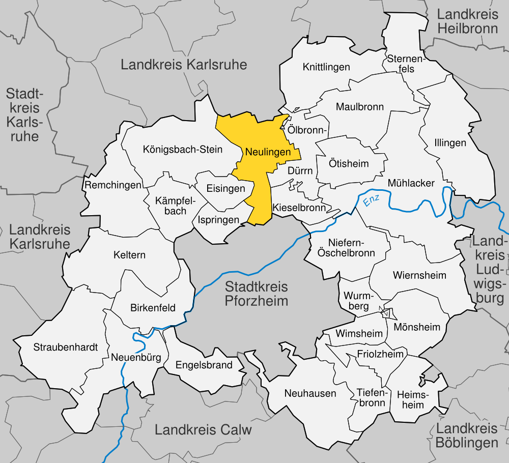 position of Neulingen within distict of Enzkreis, Baden-Württemberg, Germany